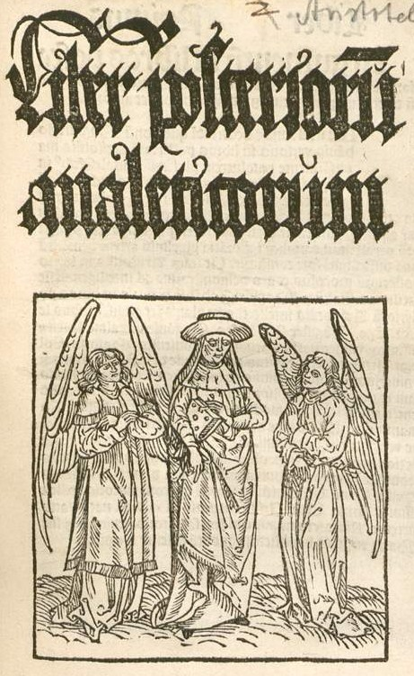 Title page of Quaestiones super libros Analyticorum posteriorum Aristotelis cum textu, Leipzig 1499, by Johannes Versor.